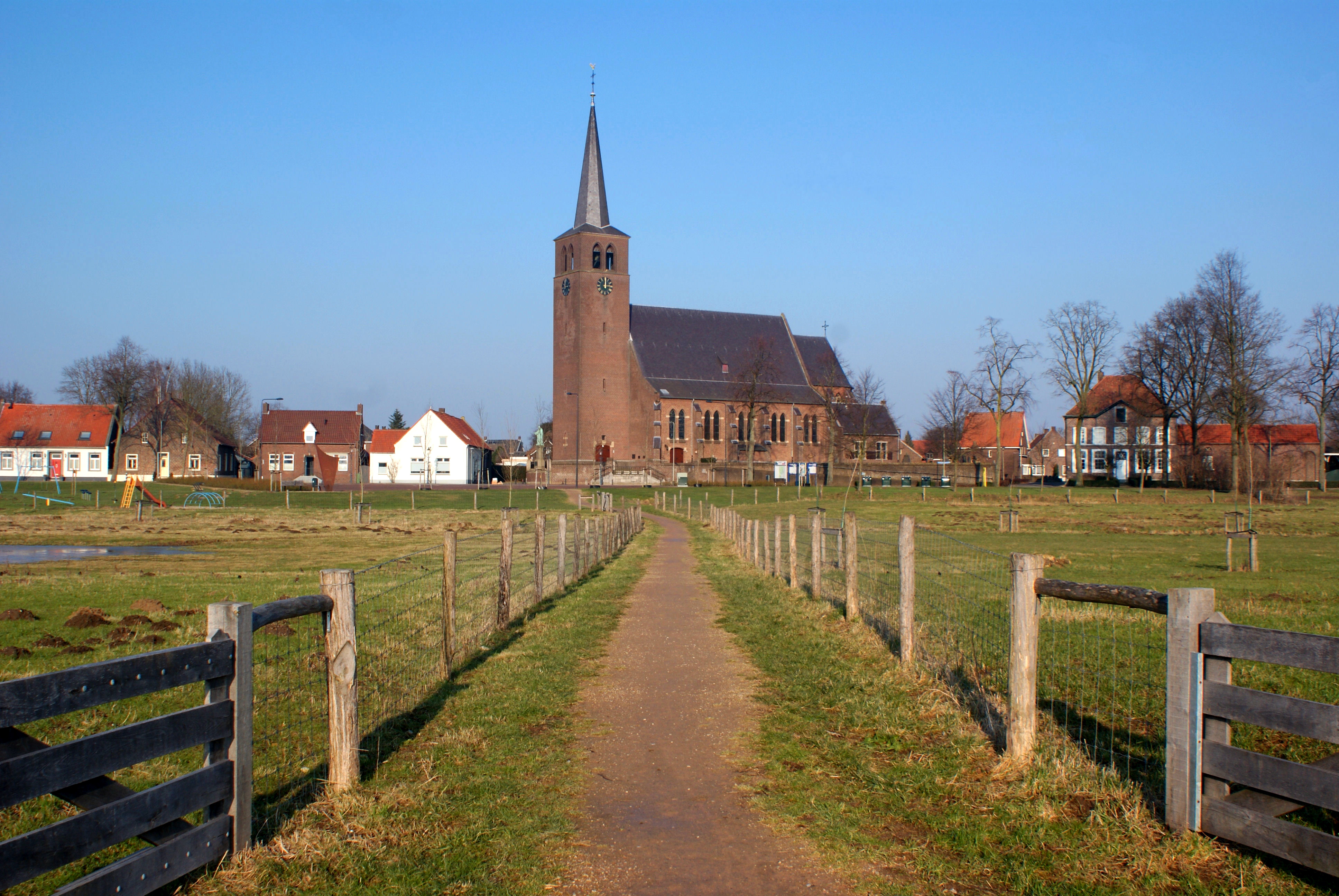 Saint Aldegonde Church, Buggenum